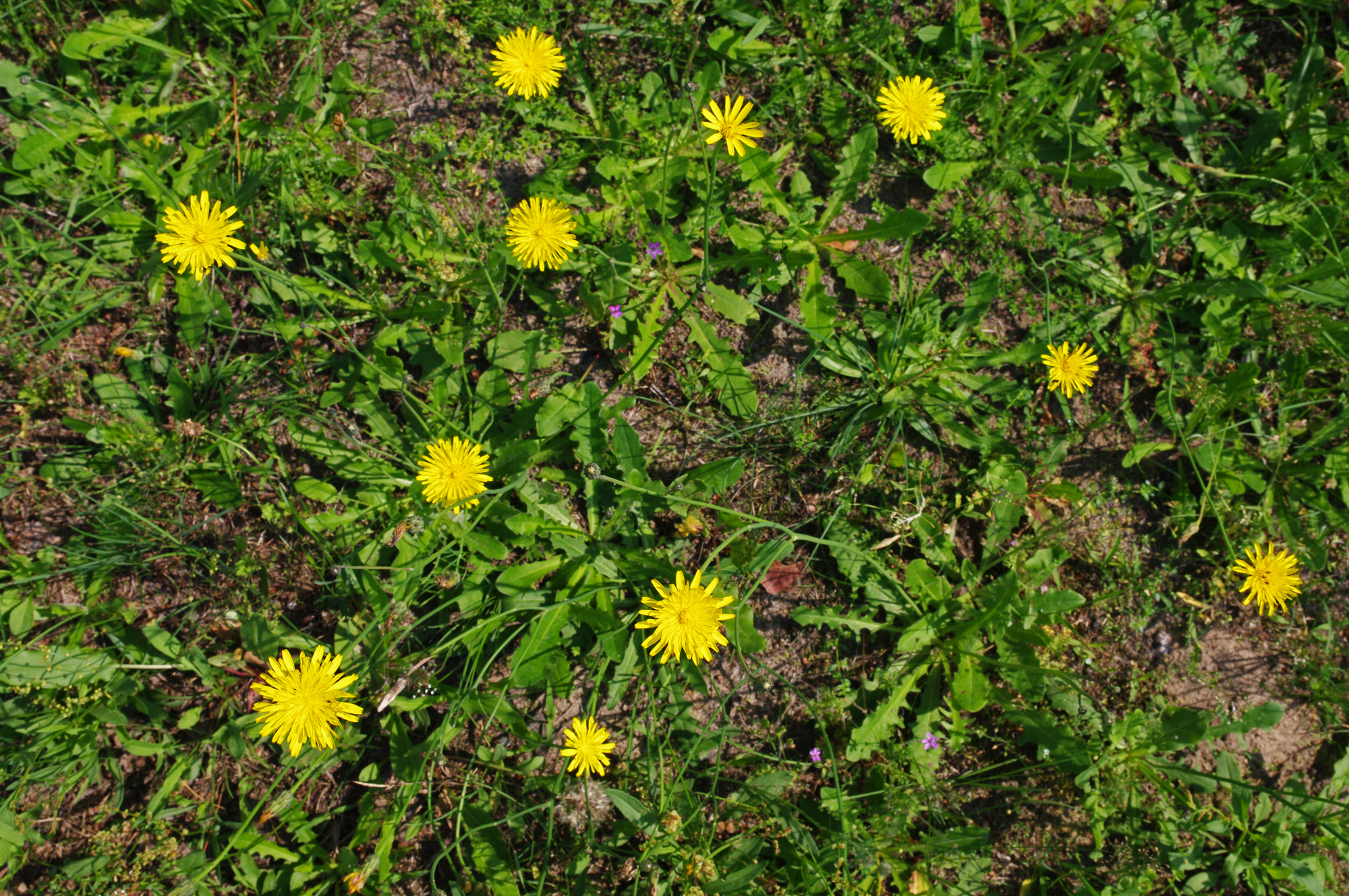 Flowering plants of Hypochaeris radicata.